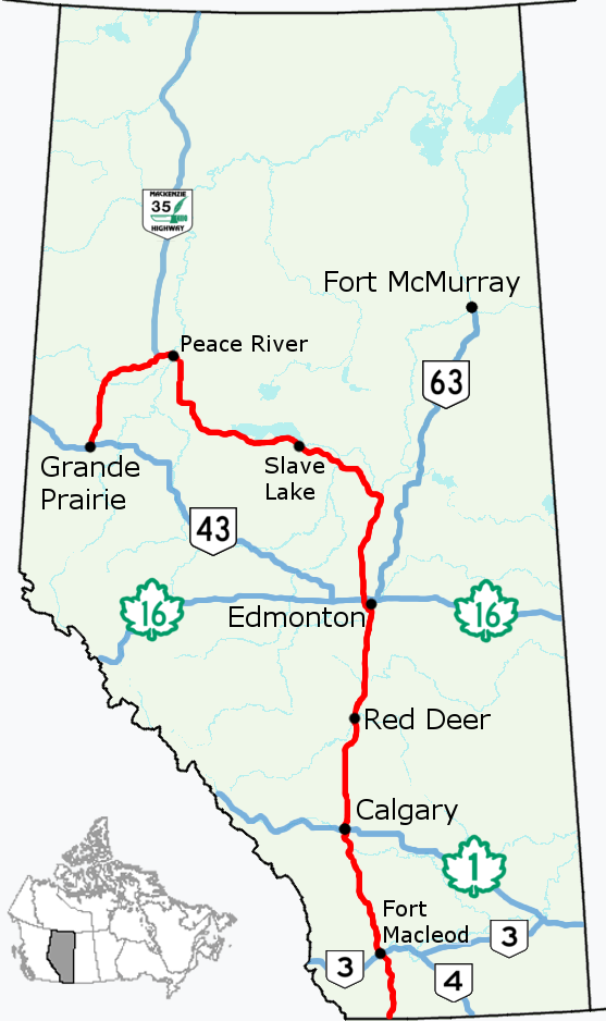 Alignment of Highway 2 in Alberta, Canada.